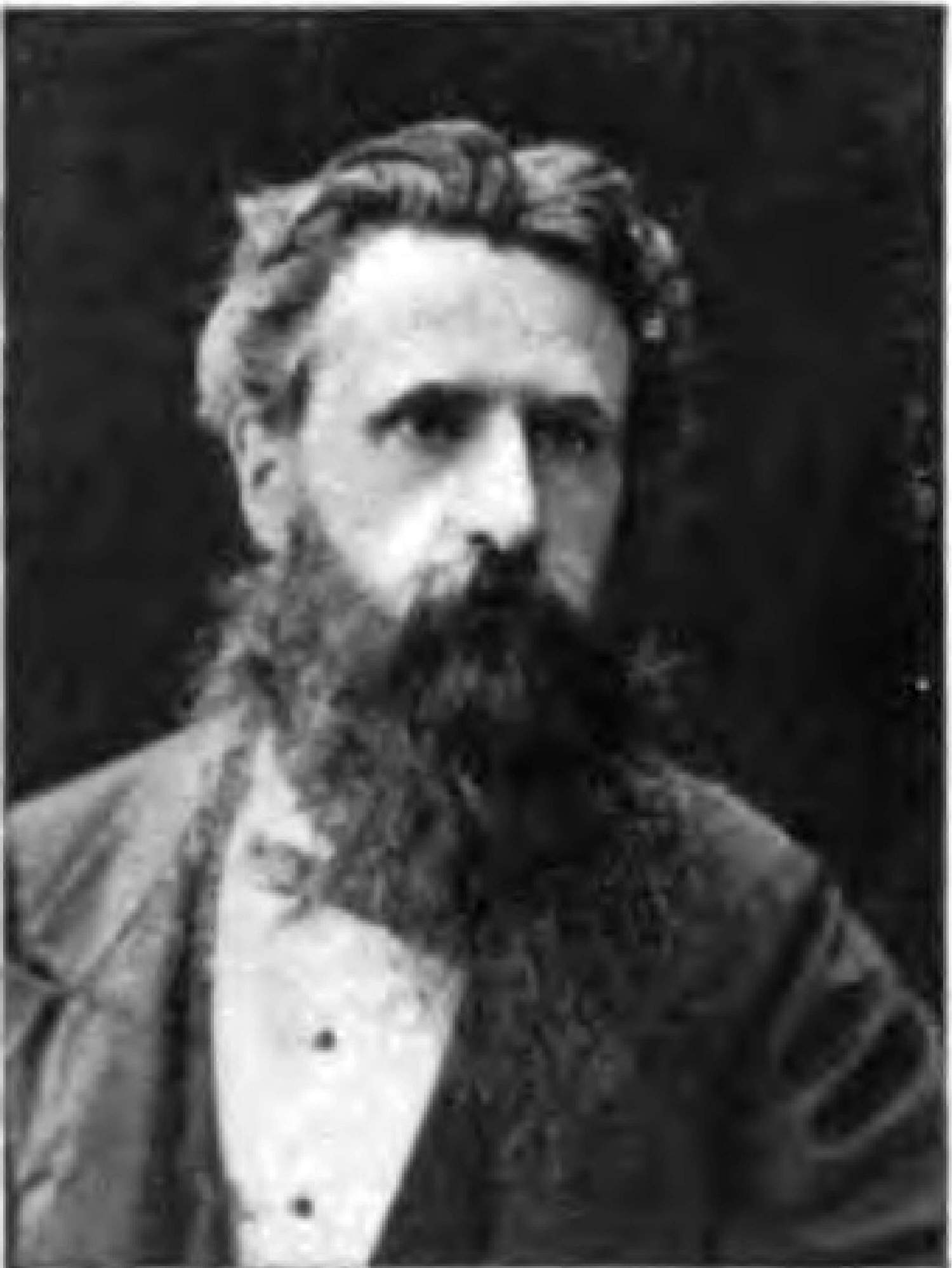 George Smith (Chelsea, London 26 March 1840 – 19 August 1876), was a pioneering English Assyriologist